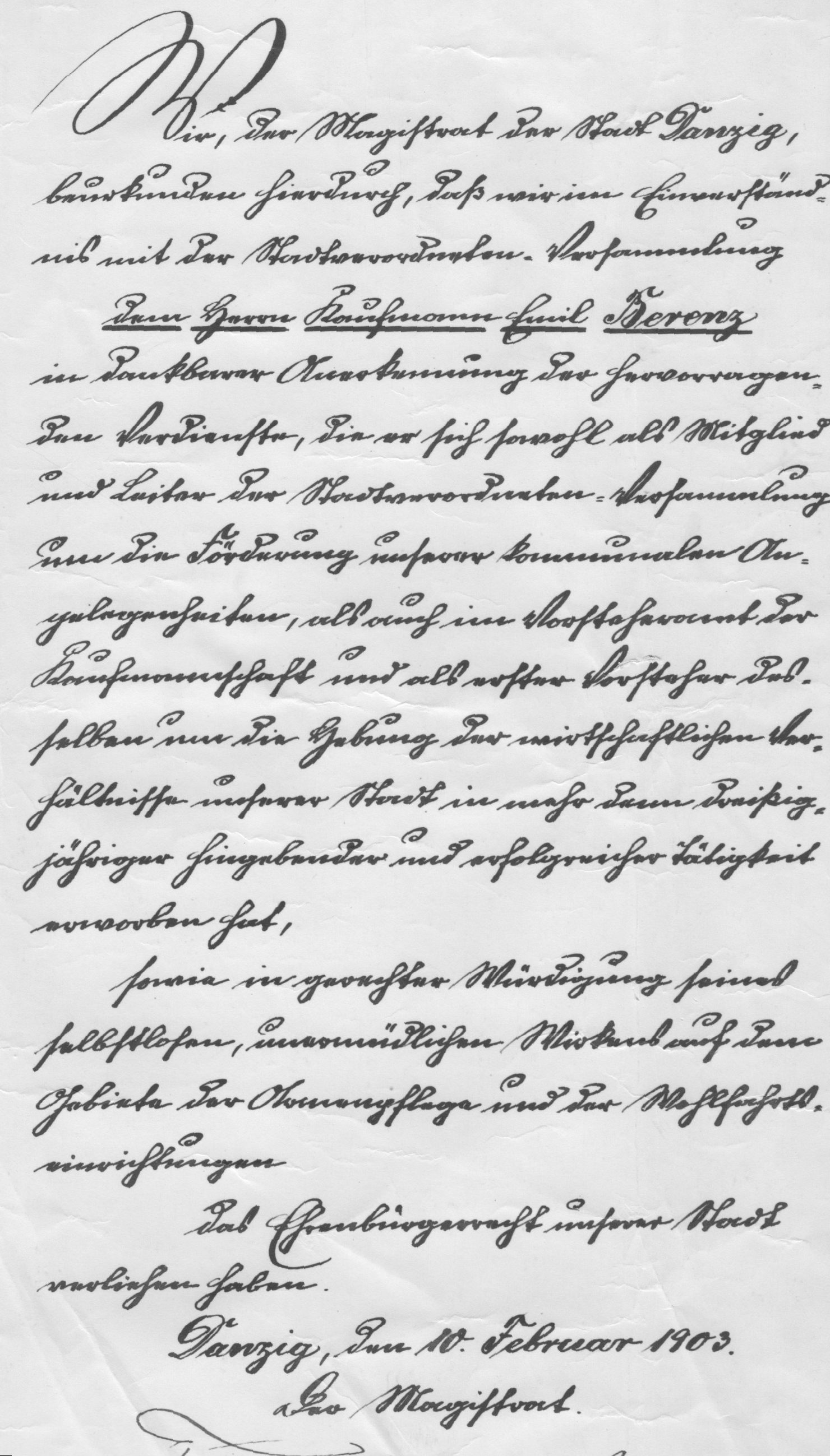 Award